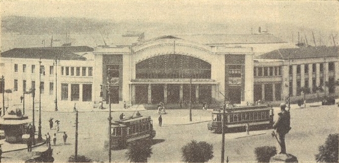 Cais do Sodré Railway station, in the city of Lisbon, in Portugal. The station building was inaugurated in 1928. This image was published in the Gazeta dos Caminhos de Ferro magazine No. 1171, of 1st October 1936, and scanned by the Hemeroteca Municipal de Lisboa.